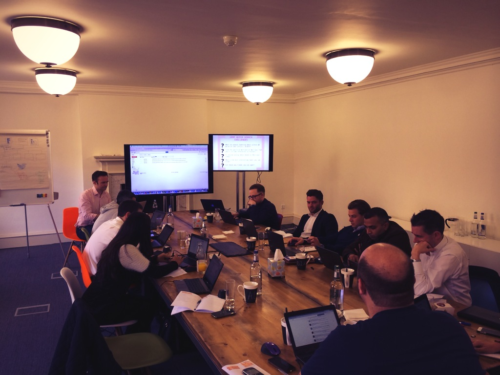 Workshop London